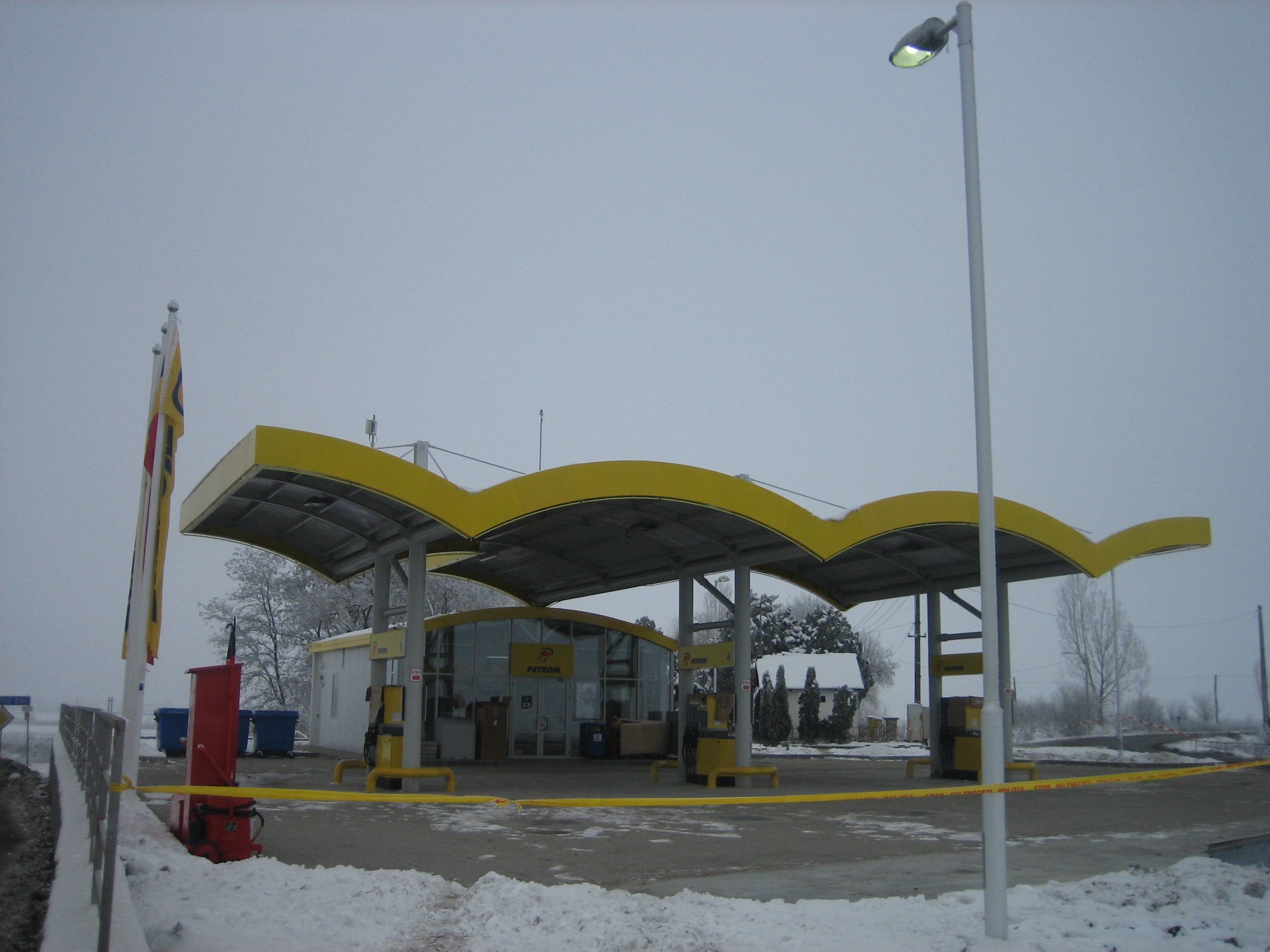 The PETROM petrol station in Luncani (Aranyosgerend)